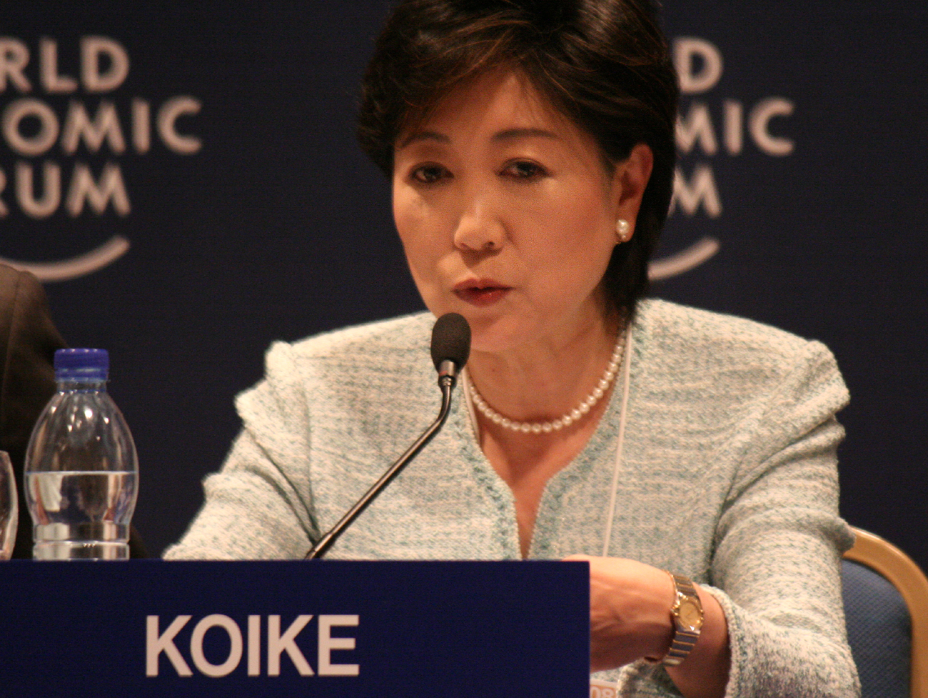 SHARM EL SHEIKH/EGYPT, 18MAY08 - Yuriko Koike, Member of the House of Representatives, National Diet of Japan captured during the Opening Plenary session "The Future of the Middle East" at the World Economic Forum on the Middle East 2008 held in Sharm El Sheikh, Egypt.